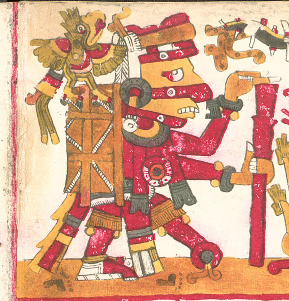 Red Tezcatlipoca described in the Codex Borgia.